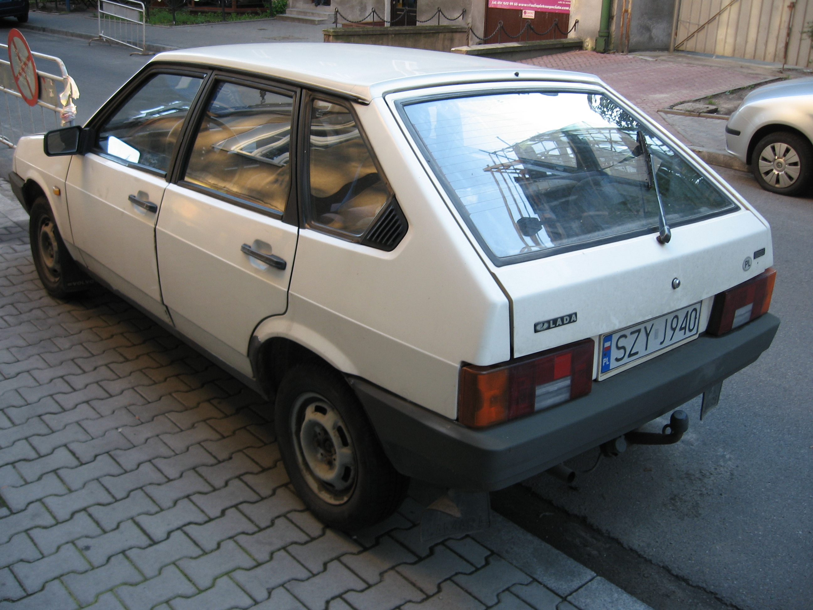 Lada Samara 2109 car in Kraków, Poland.